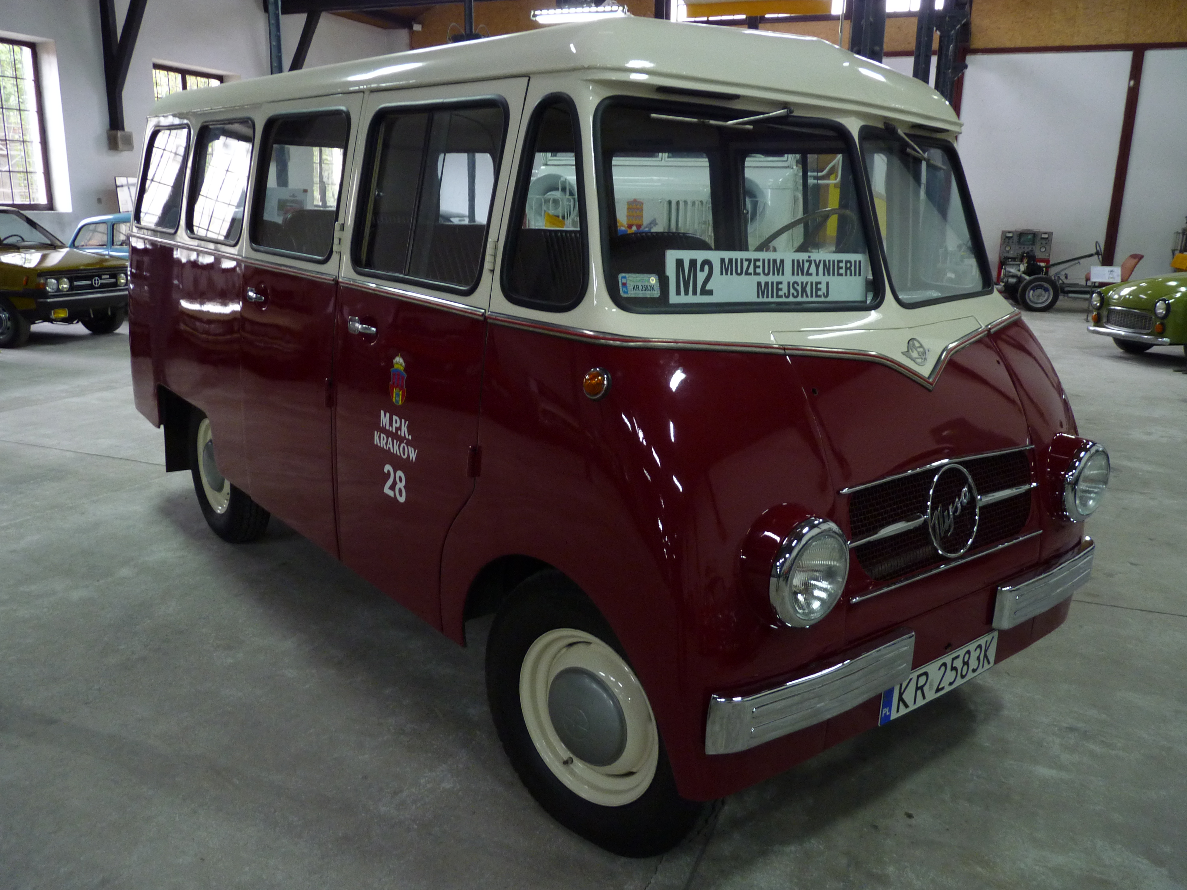 ZSD Nysa N59M microbus (#28) at the Muzeum Inżynierii Miejskiej in Kraków, Poland. Built 1959, MPK Kraków operator.